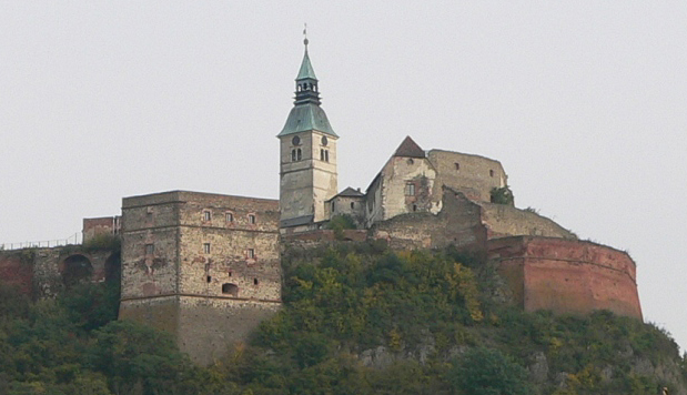 Author is Ulrich Prokop Herbst 2005